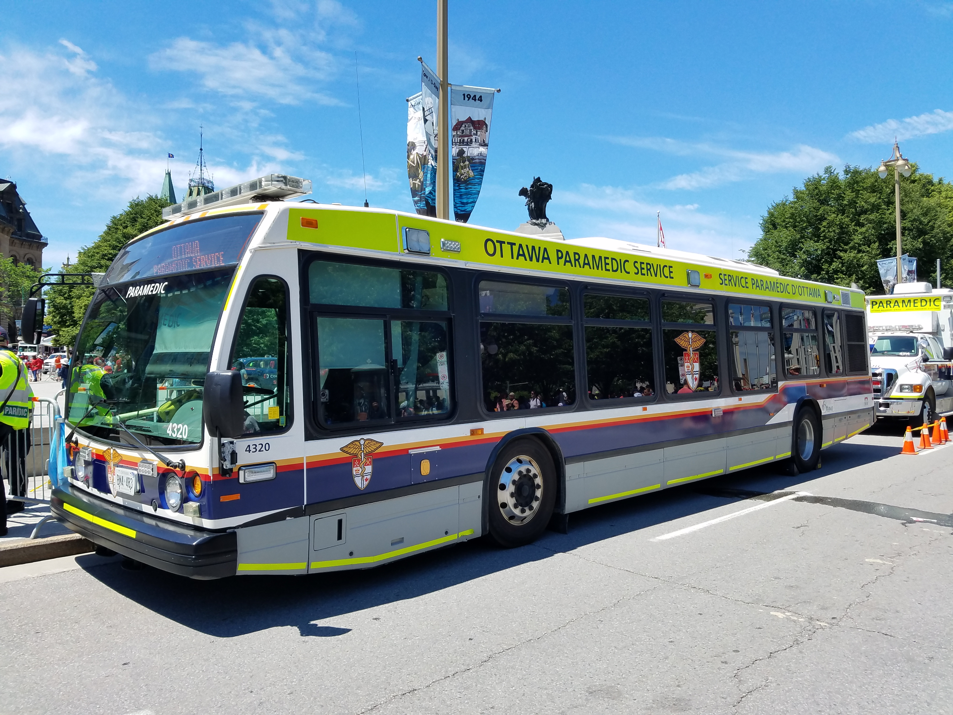 Seen during Canada Day Festivities